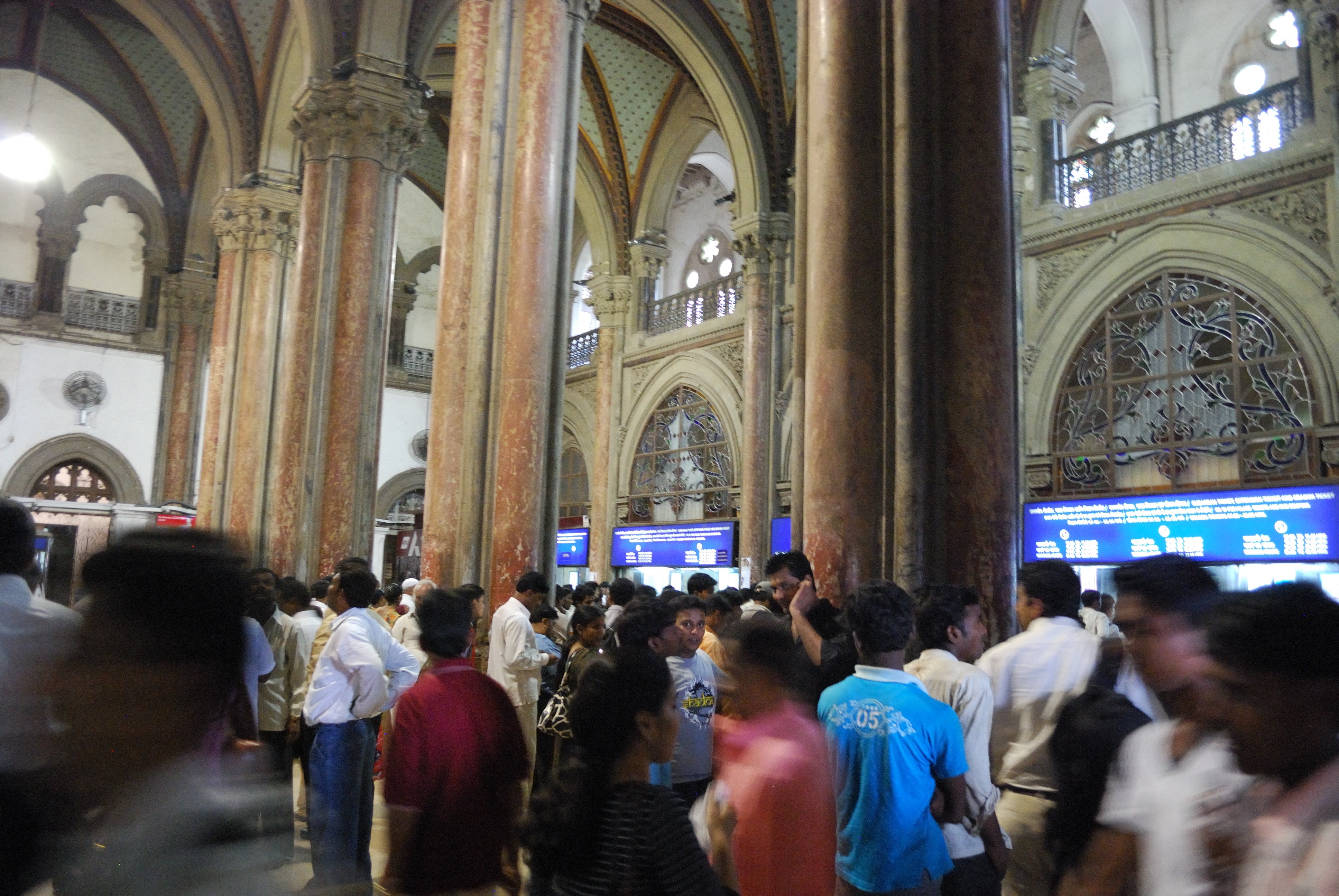 CST Inside View, Mumbai